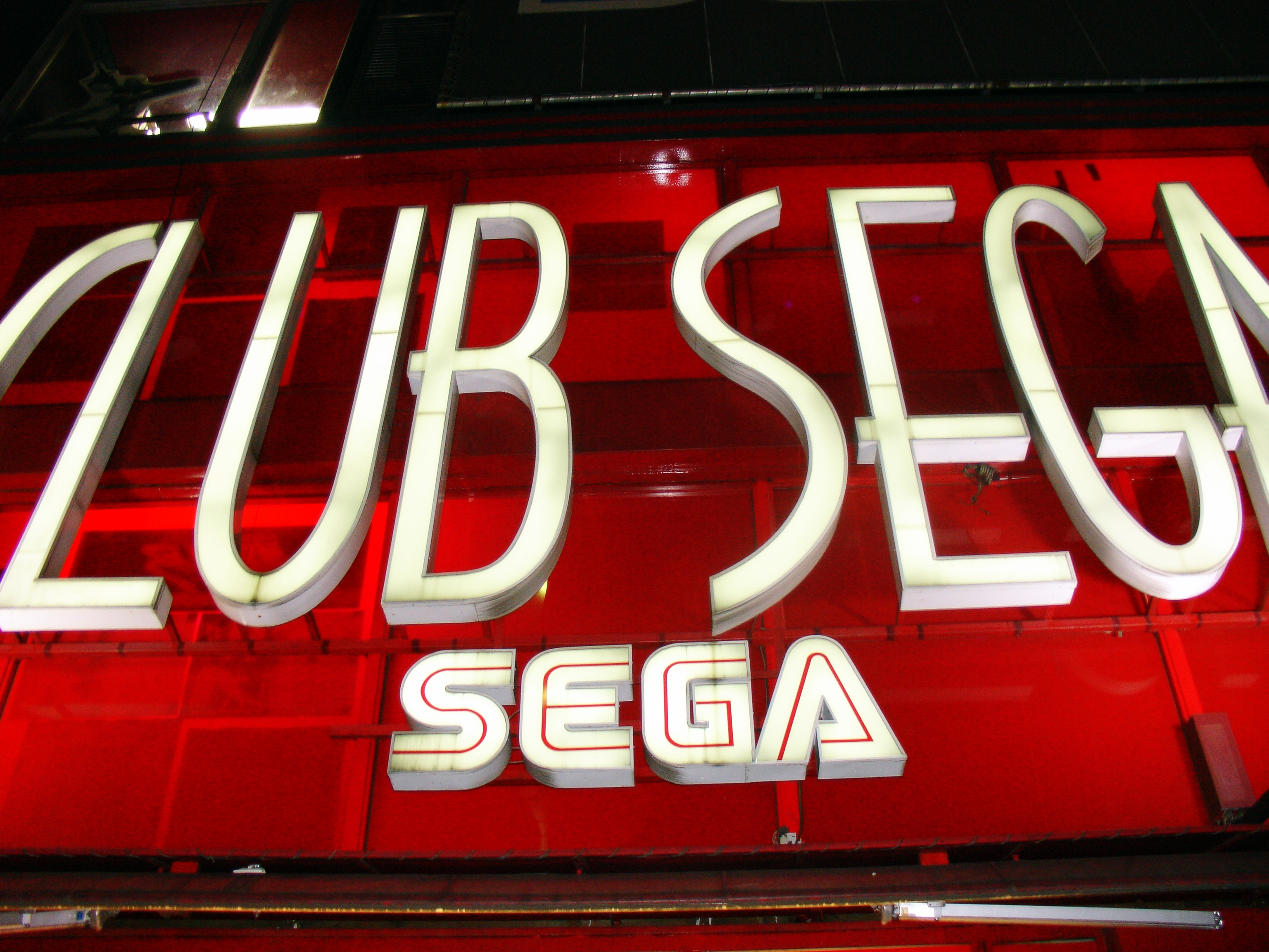 A photo of the Sega Club